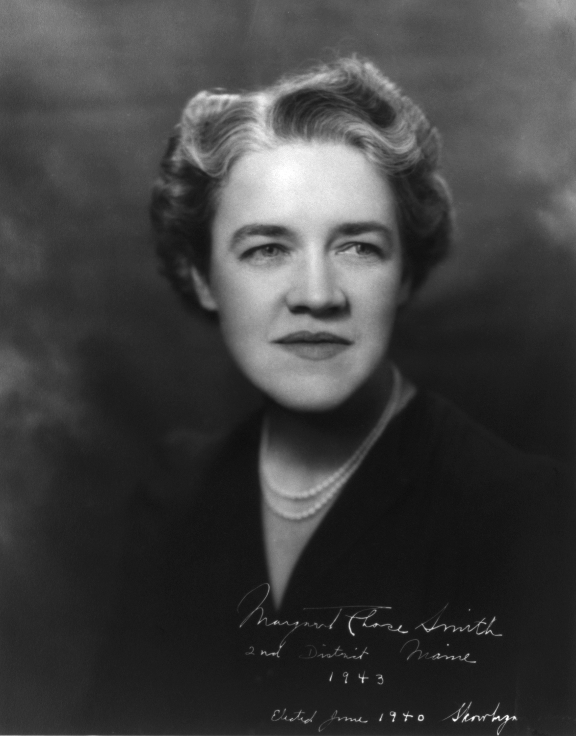 Margaret Chase Smith, member of the U.S. Senate (R-Maine).